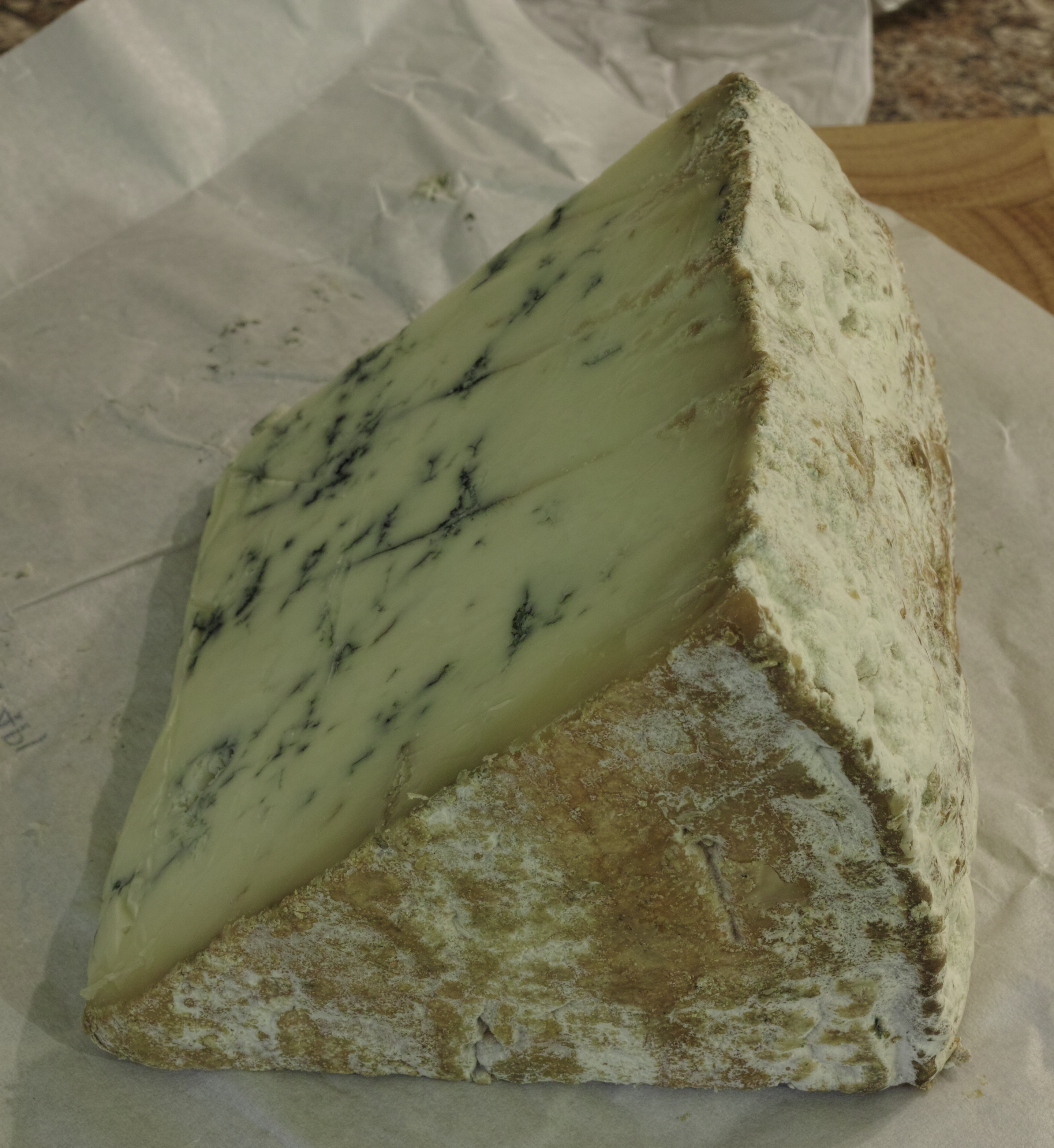 440g of Stilton cheese made by Cropwell Bishop sitting on waxed paper.